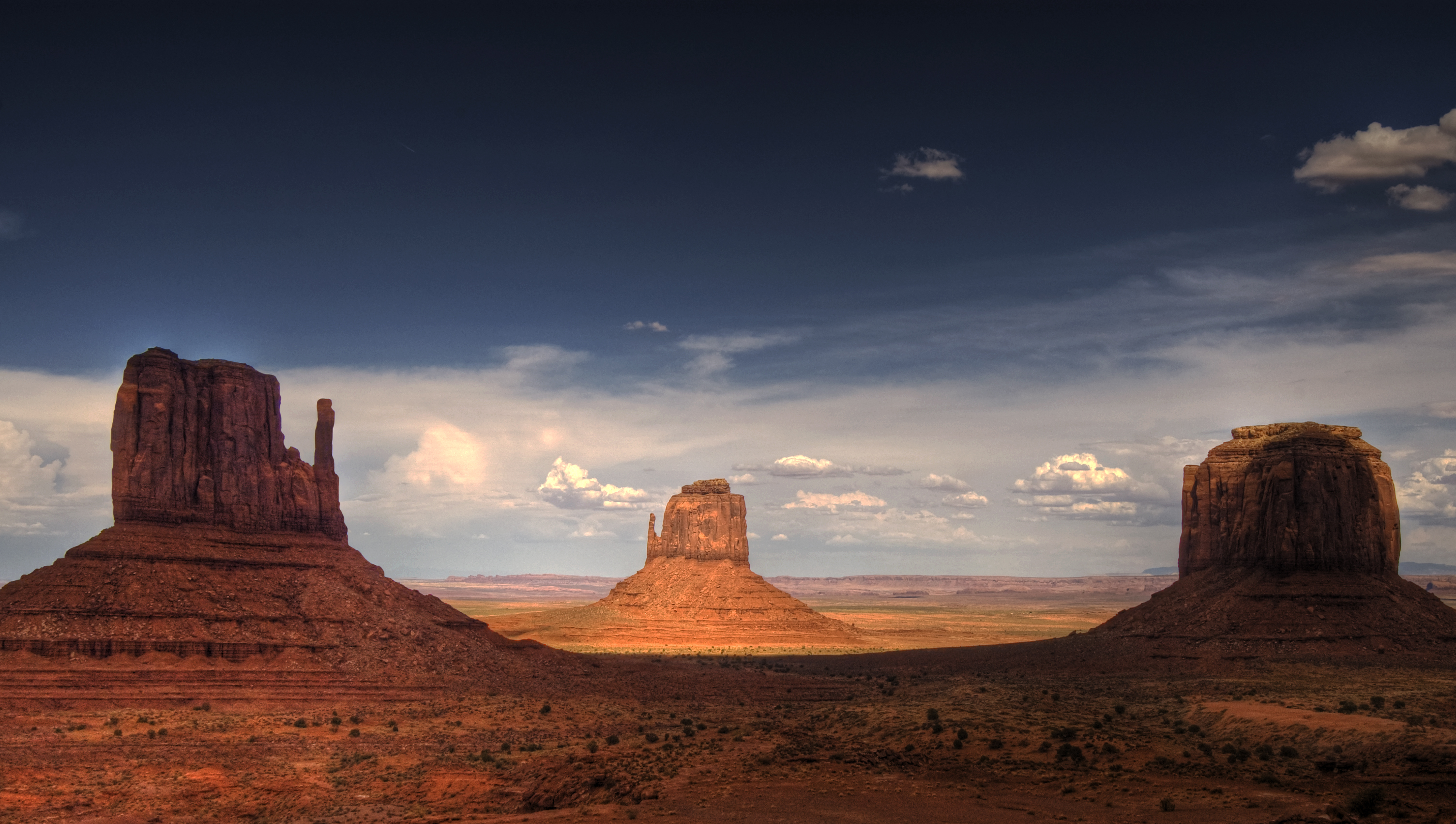 Monument Valley, the buttes are clearly stratified, with three principal layers. The lowest layer is Organ Rock Formation-(skirts, slope-former), the middle De Chelly Sandstone-(vertical cliffs) and the top layer is Moenkopi Formation (shales?, horizontal bedding) capped by Shinarump siltstone-(Shinarump Conglomerate-(locally)). The 3 buttes lie in Arizona, adjacent the Utah border. The West and East Mitten Buttes (left & center) are about 1.5 miles (2 km) apart. Merrick Butte is at photo-right.